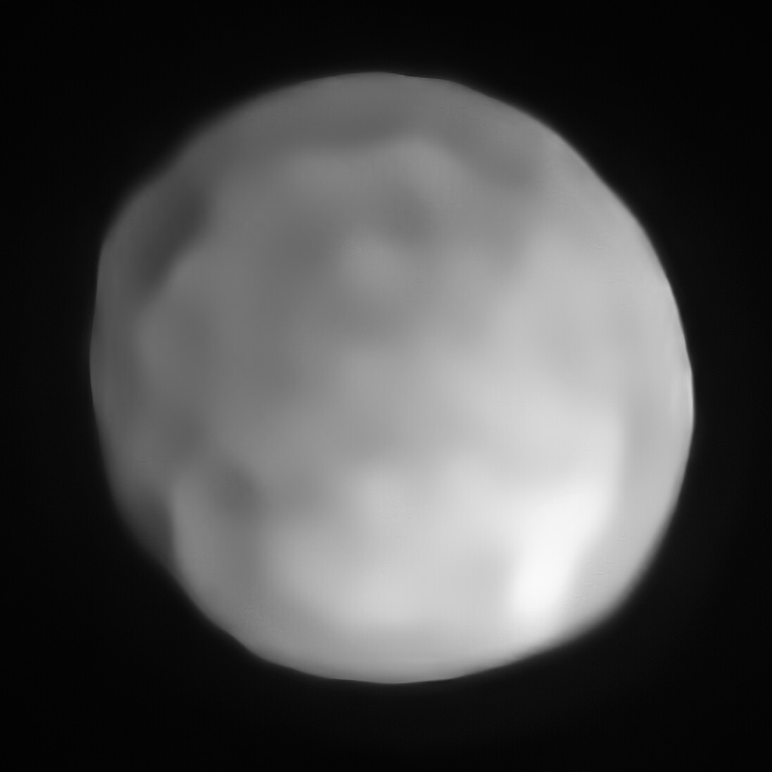 A new SPHERE/VLT image of Hygiea, which could be the Solar System’s smallest dwarf planet yet. As an object in the main asteroid belt, Hygiea satisfies right away three of the four requirements to be classified as a dwarf planet: it orbits around the Sun, it is not a moon and, unlike a planet, it has not cleared the neighbourhood around its orbit. The final requirement is that it have enough mass that its own gravity pulls it into a roughly spherical shape. This is what VLT observations have now revealed about Hygiea. Credit: ESO/P. Vernazza et al./MISTRAL algorithm (ONERA/CNRS)